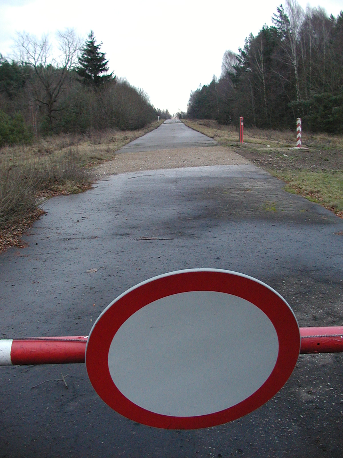 Poland - Belarus border around village Lipszczany.